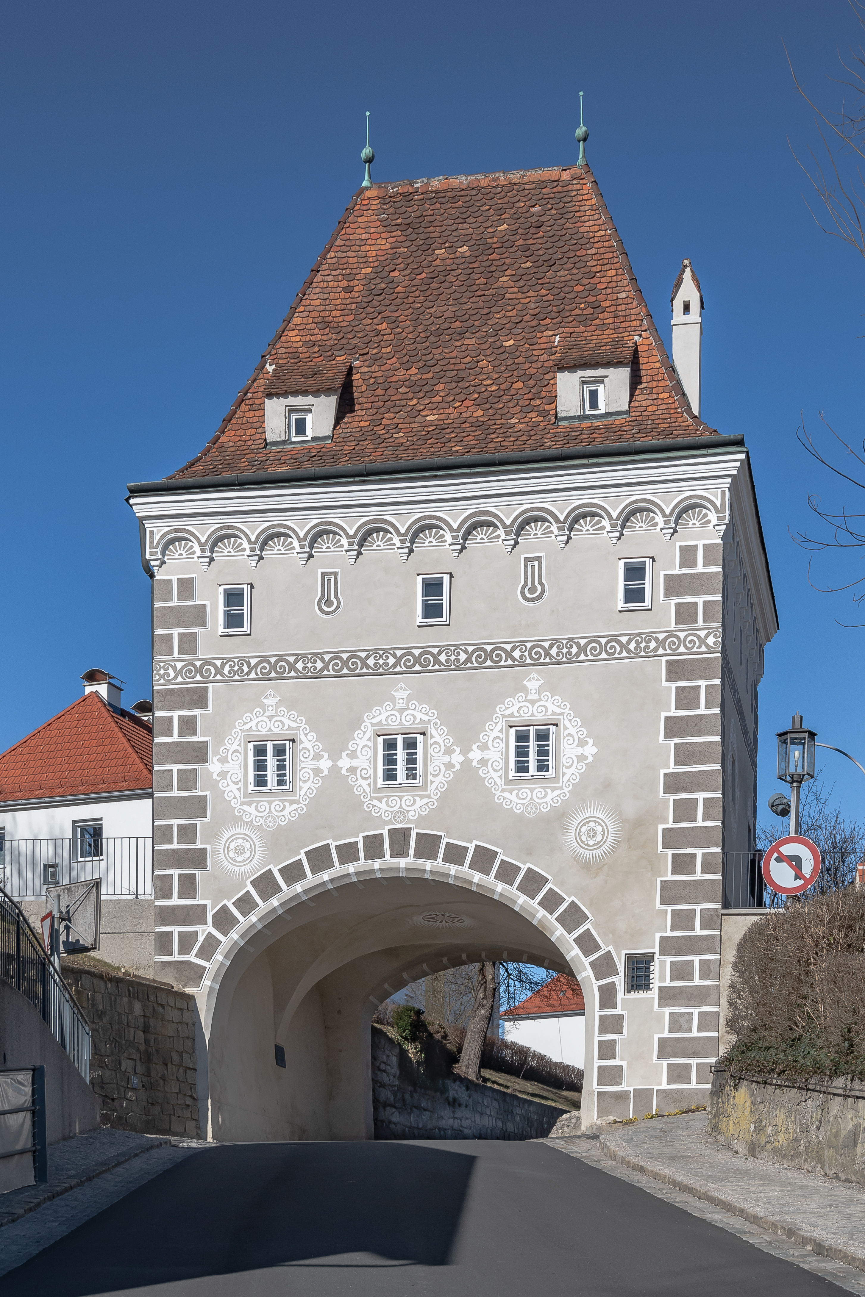 The gate tower "Schnallentor" in Steyr / Upper Austria was erected around 1600.